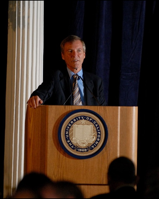 For Leigh's wiki